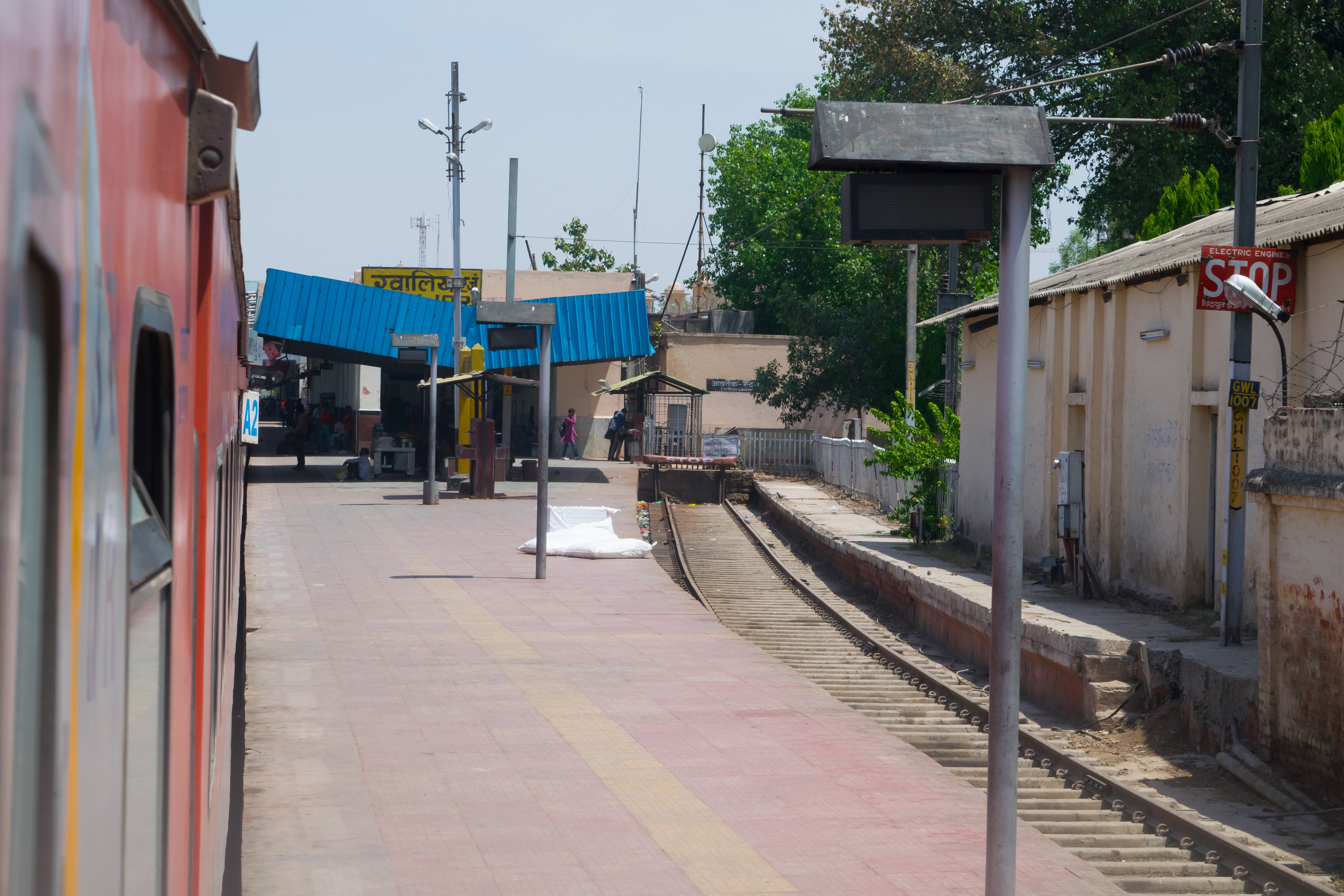 A remote view of Platform 1 of Gwalior Railway Station